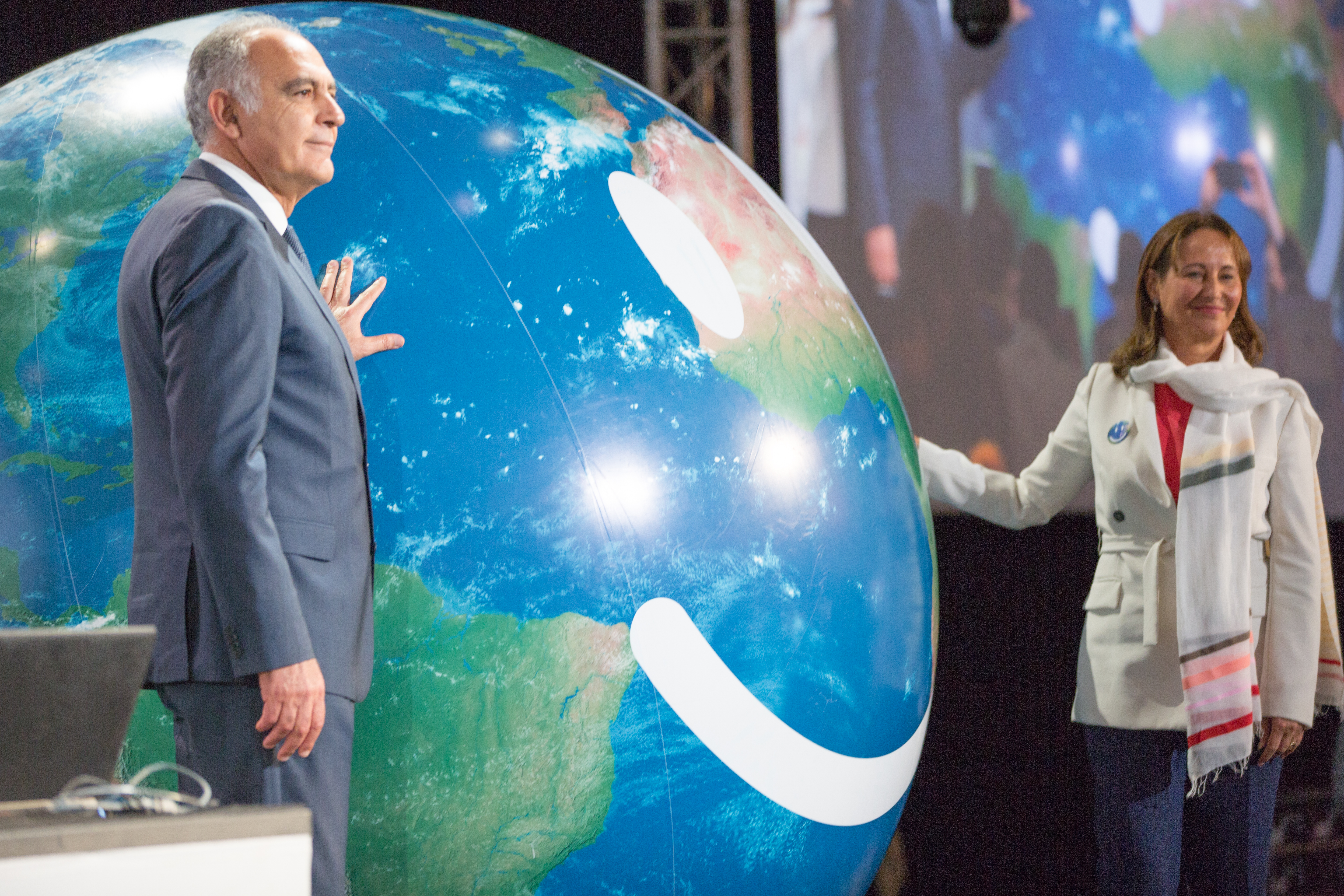 Opening Ceremony of the Marrakech Climate Change Conference